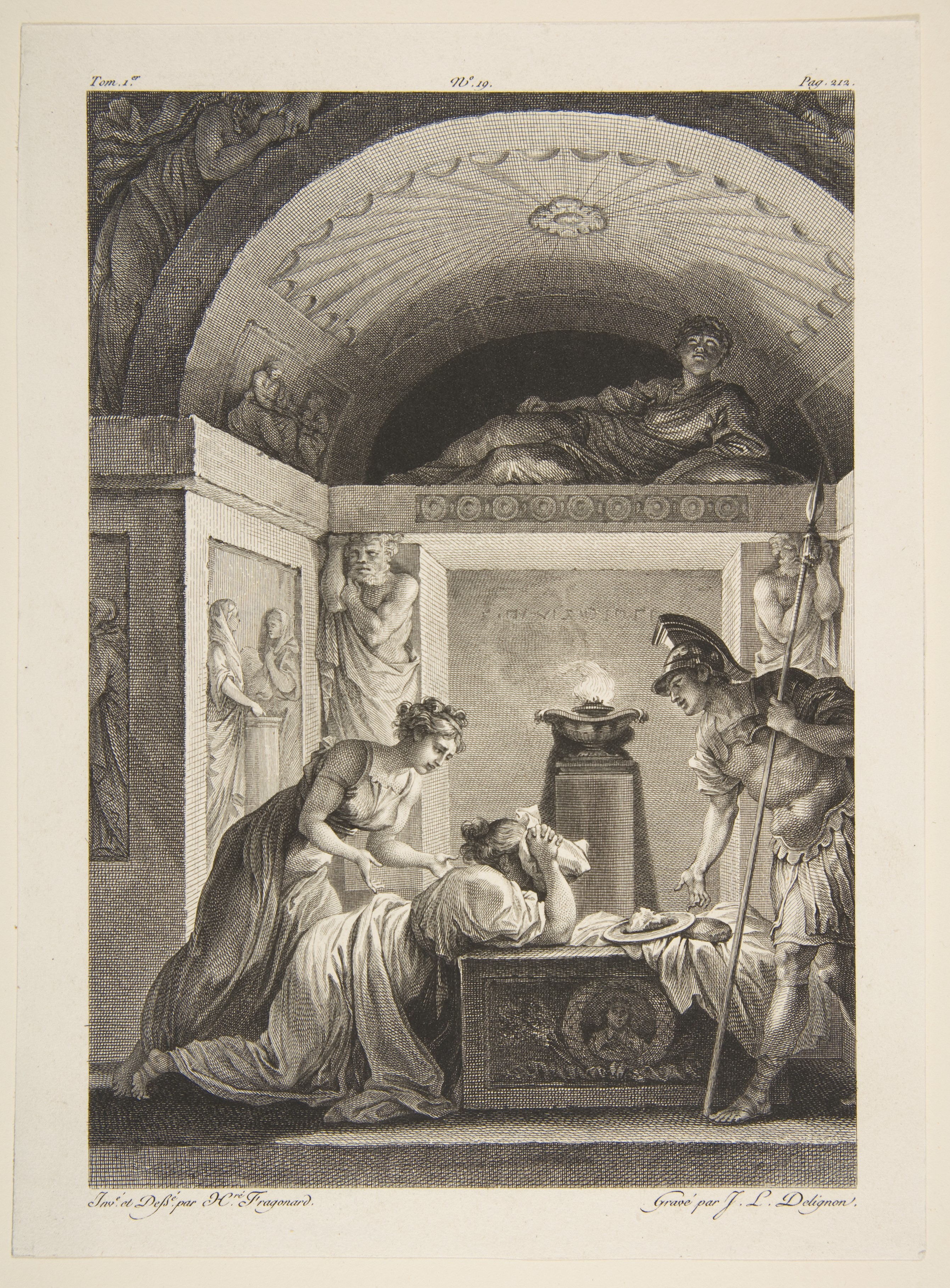 Print; Prints